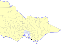 Location of the Borough of Wonthaggi within Victoria.